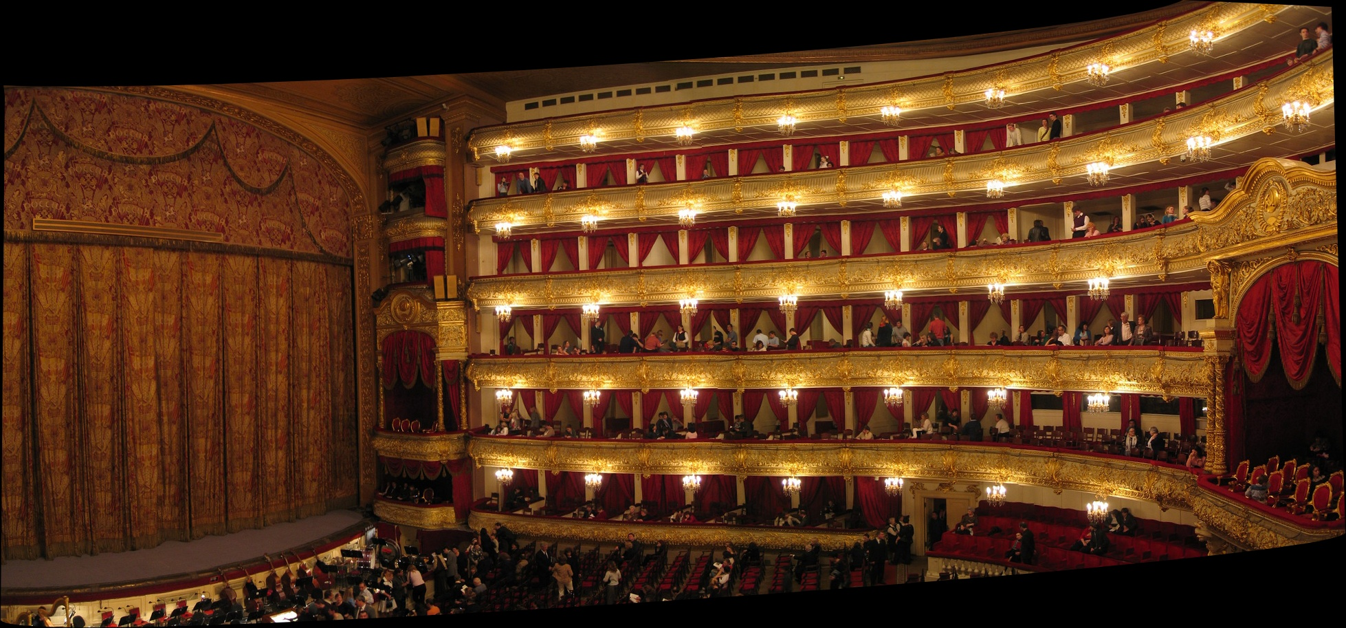 Moscow, Russia: Inside the Bolshoi Theatre, 10 April 2005. Taken during the break of Tchaikovsky's Nutcracker ballet. Uploaded to en.wikipedia 14:38, 22 Apr 2005 by User:Theefer and marked cc-by-sa-2.0. .